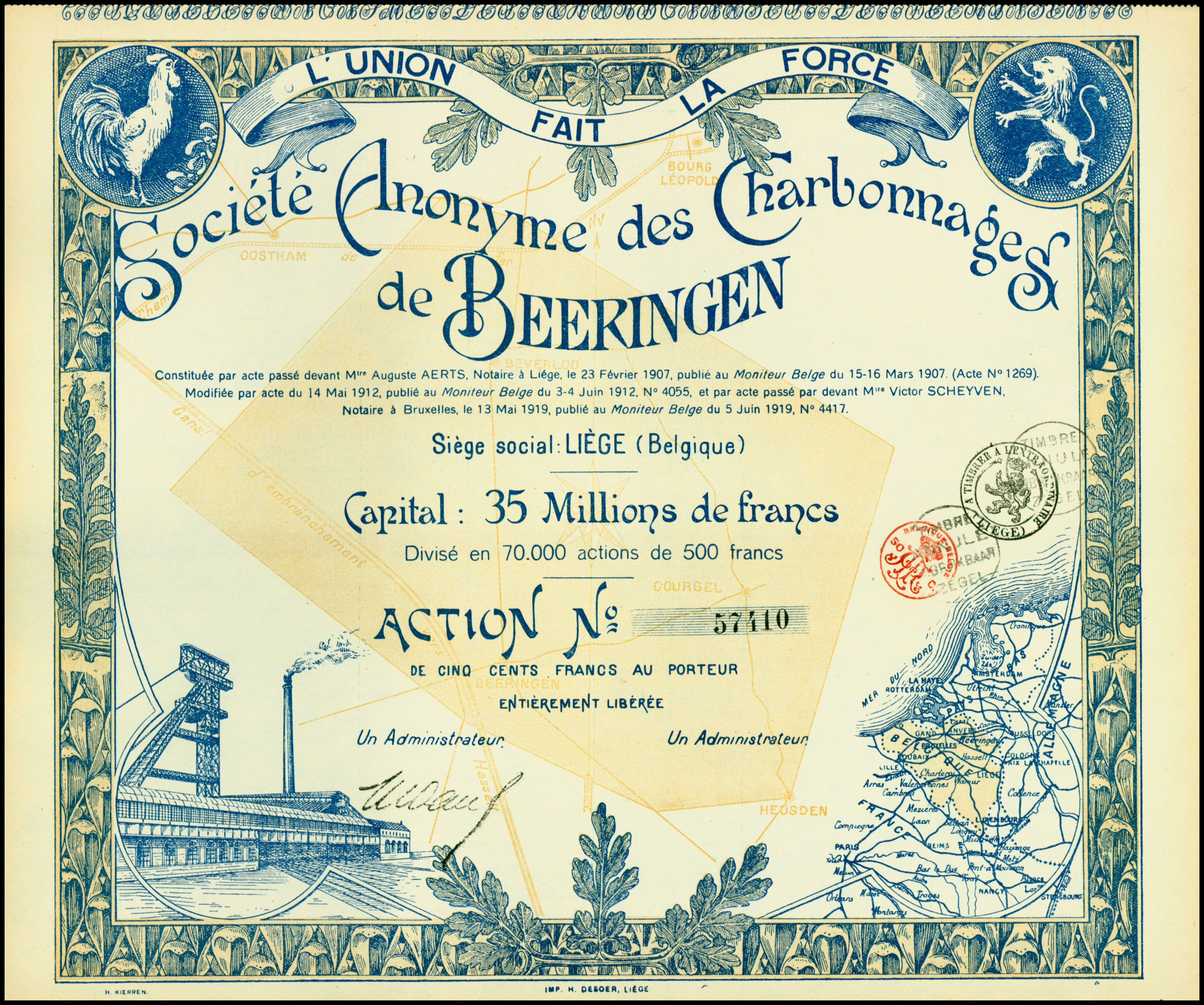 Share of the SA des Charbonnages de Beeringen, issued 5. June 1919